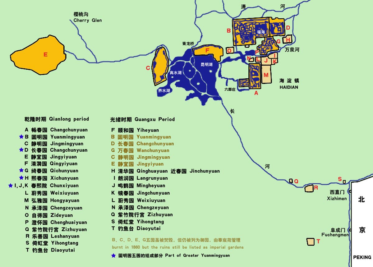 Qing dynasty Imperial gardens — at the Old Summer Palace and beyond, in Peking—Beijing.